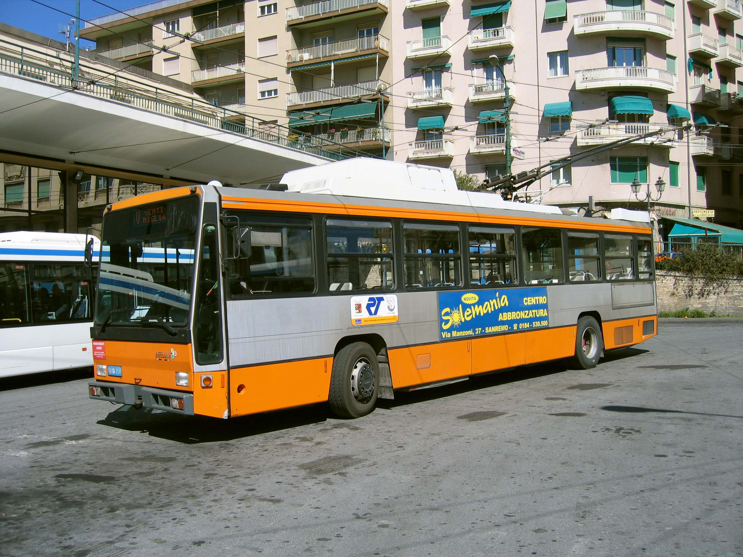 Trolleybus RT n.1711 in Sanremo